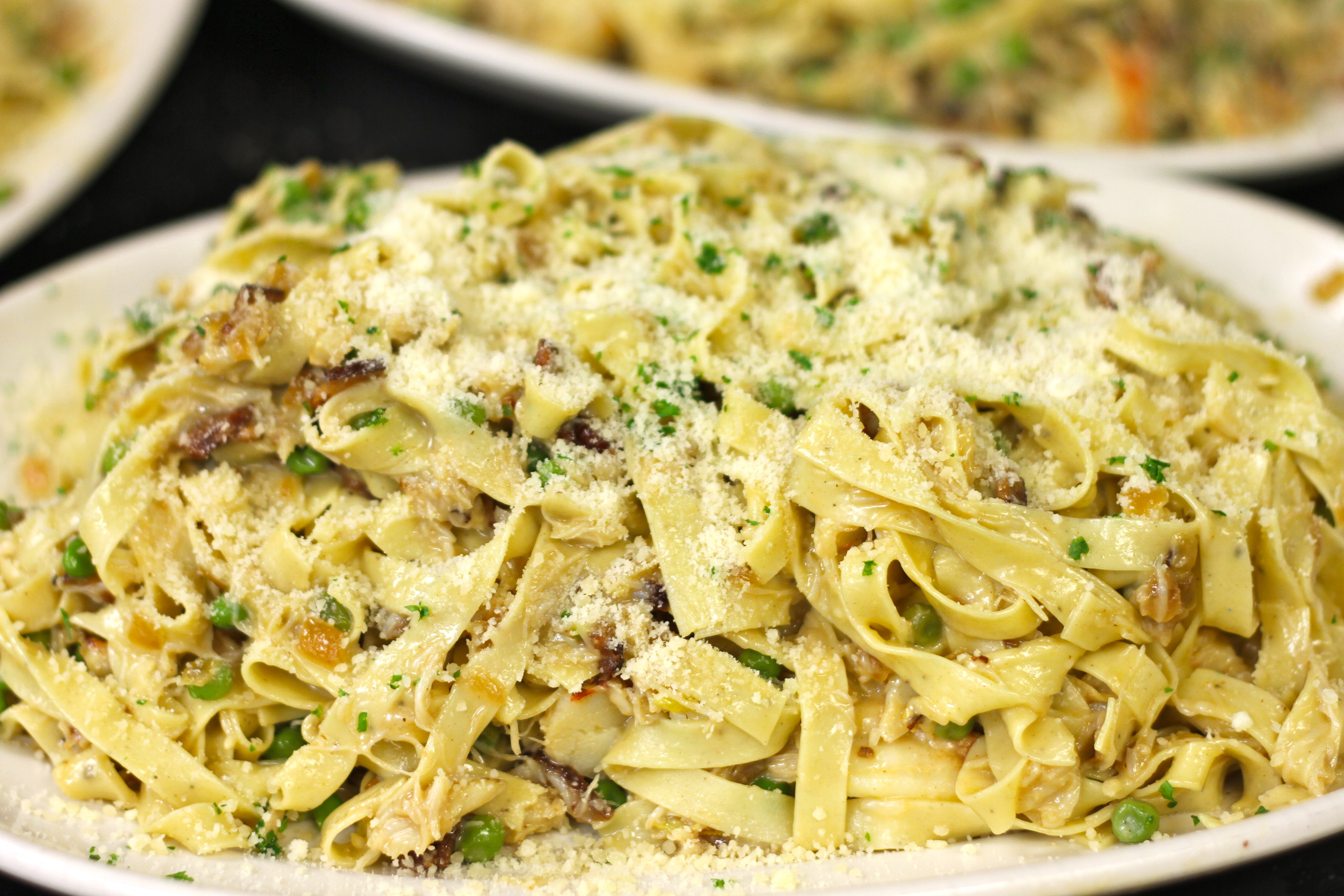 Dungeness Crab Carbonara with Black pepper Fettuccini, Berkshire bacon, Fresh Peas, & Creamy brown butter, served family style